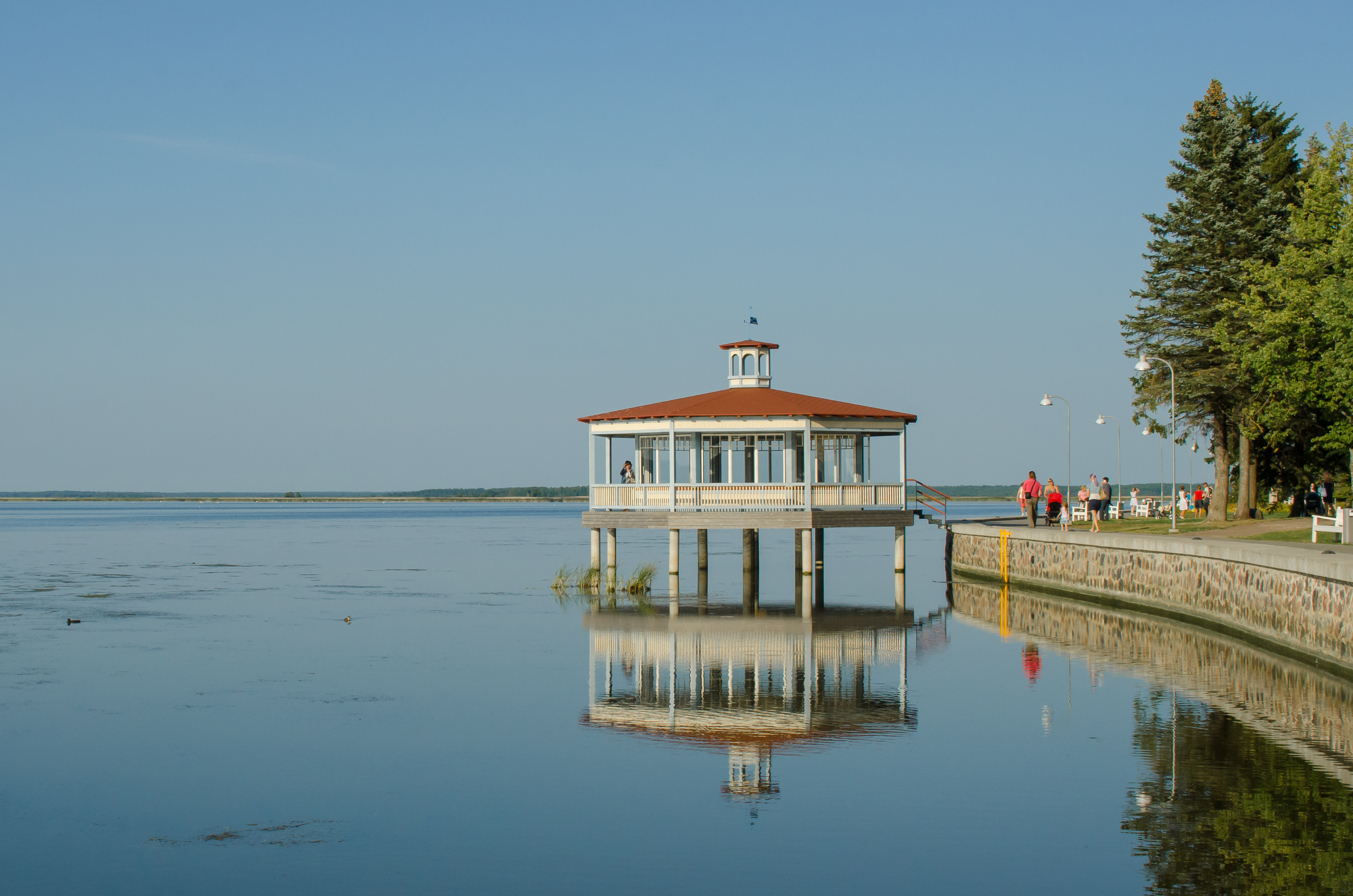 A pavilion at Haapsalu seaside promenadeEesti: Paviljon Haapsalu rannapromenaadil